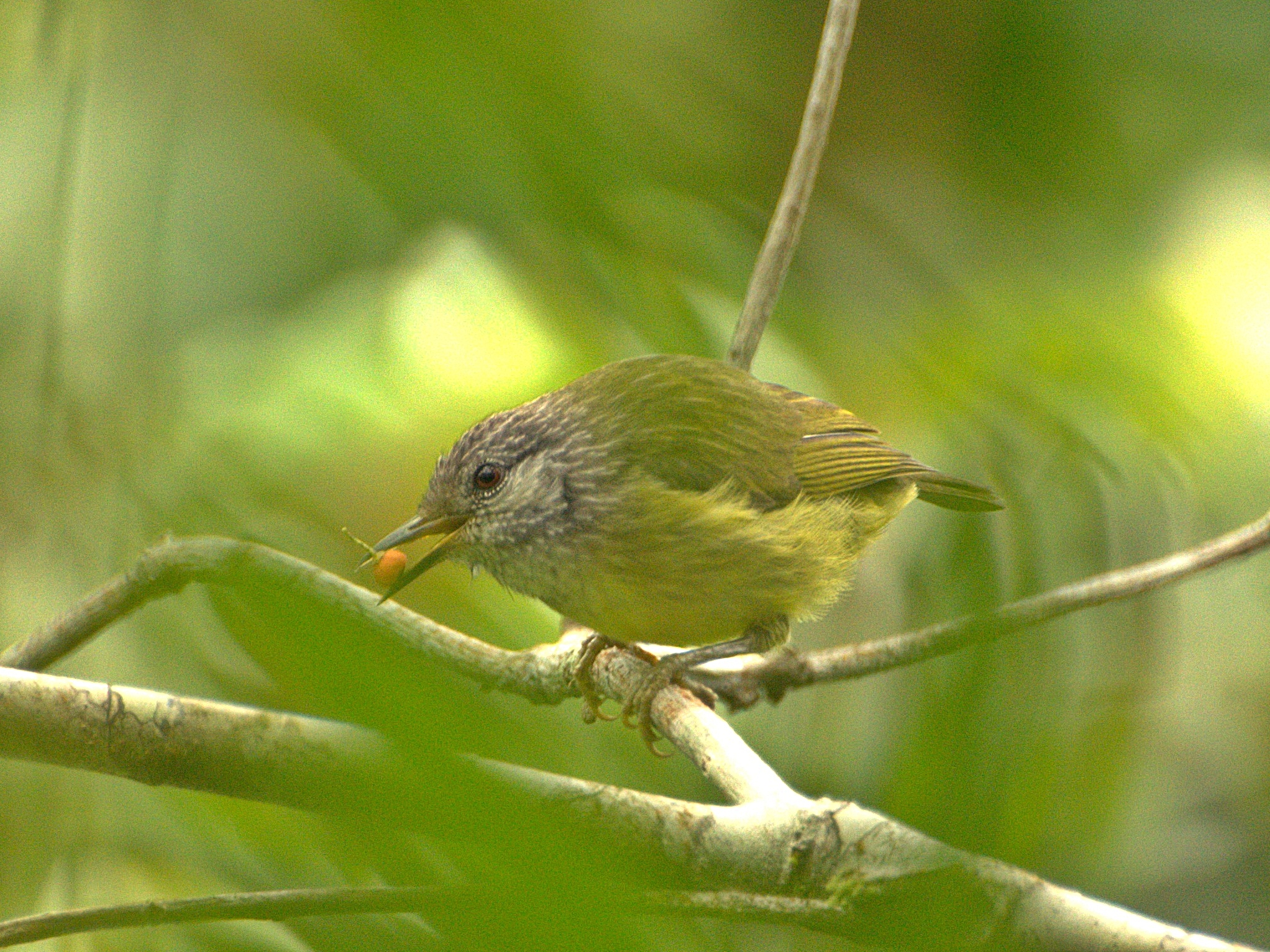 Streak-headed Ibon (Lophozosterops squamiceps stresemanni) at Mount Mahawu, North Sulawesi